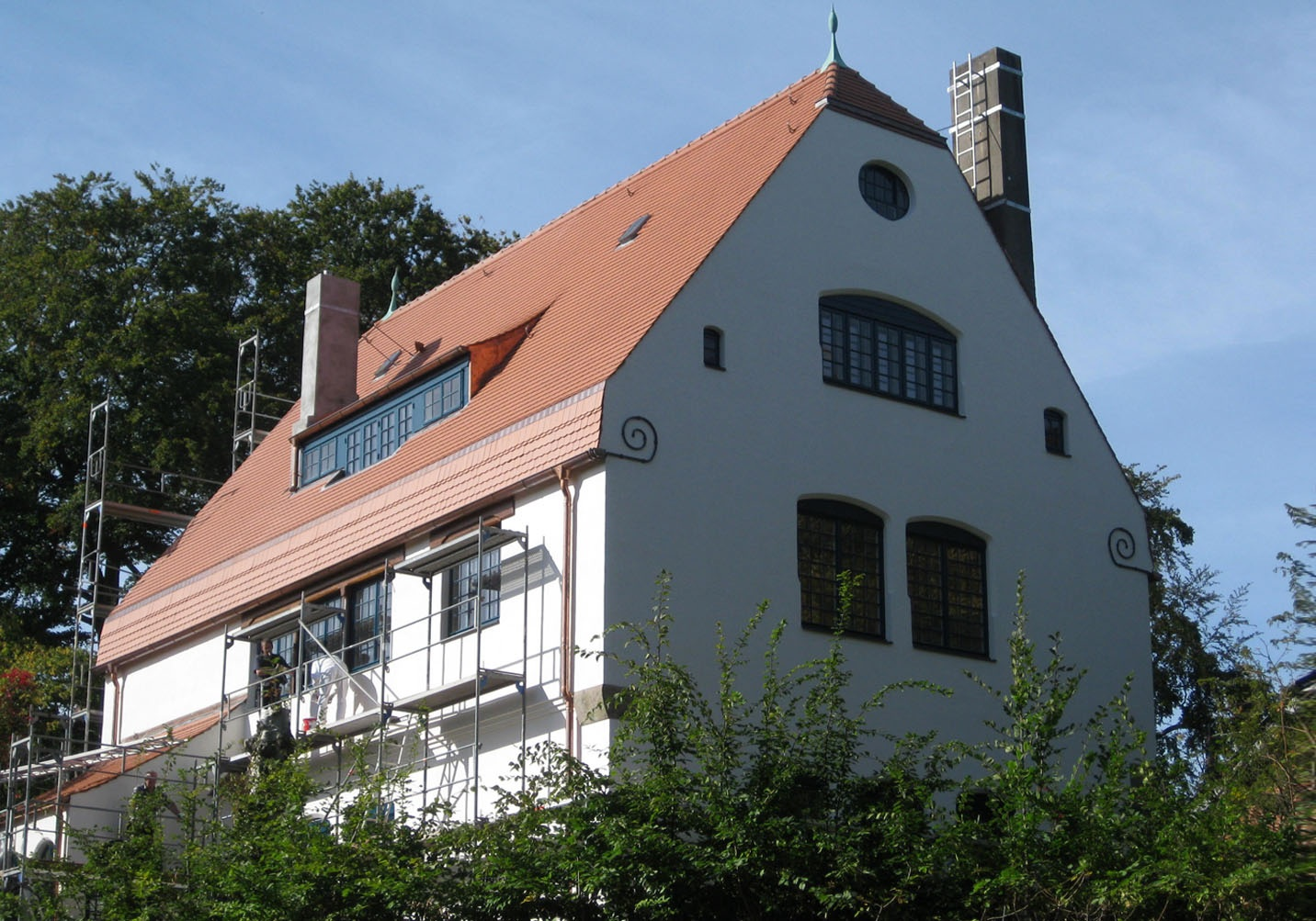 This is animate of the restored Riemerschmid villa in Kiel (2011)